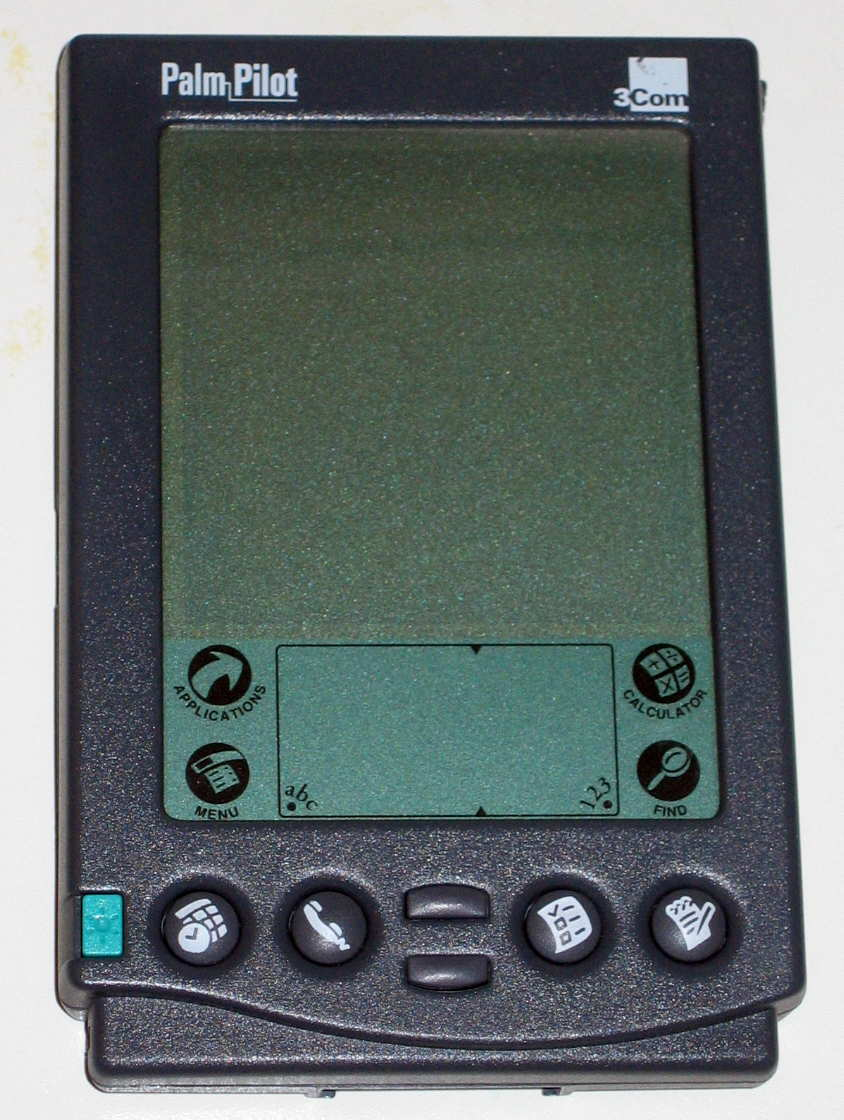 An old school 3com palm pilot. I took this photograph of my palm pilot I release it under this license: This is not the original Palm Pilot. I think that one came from US Robotics. This one came after 3com bought USR, so the company name in the corner is different. Other than that, it's the original.